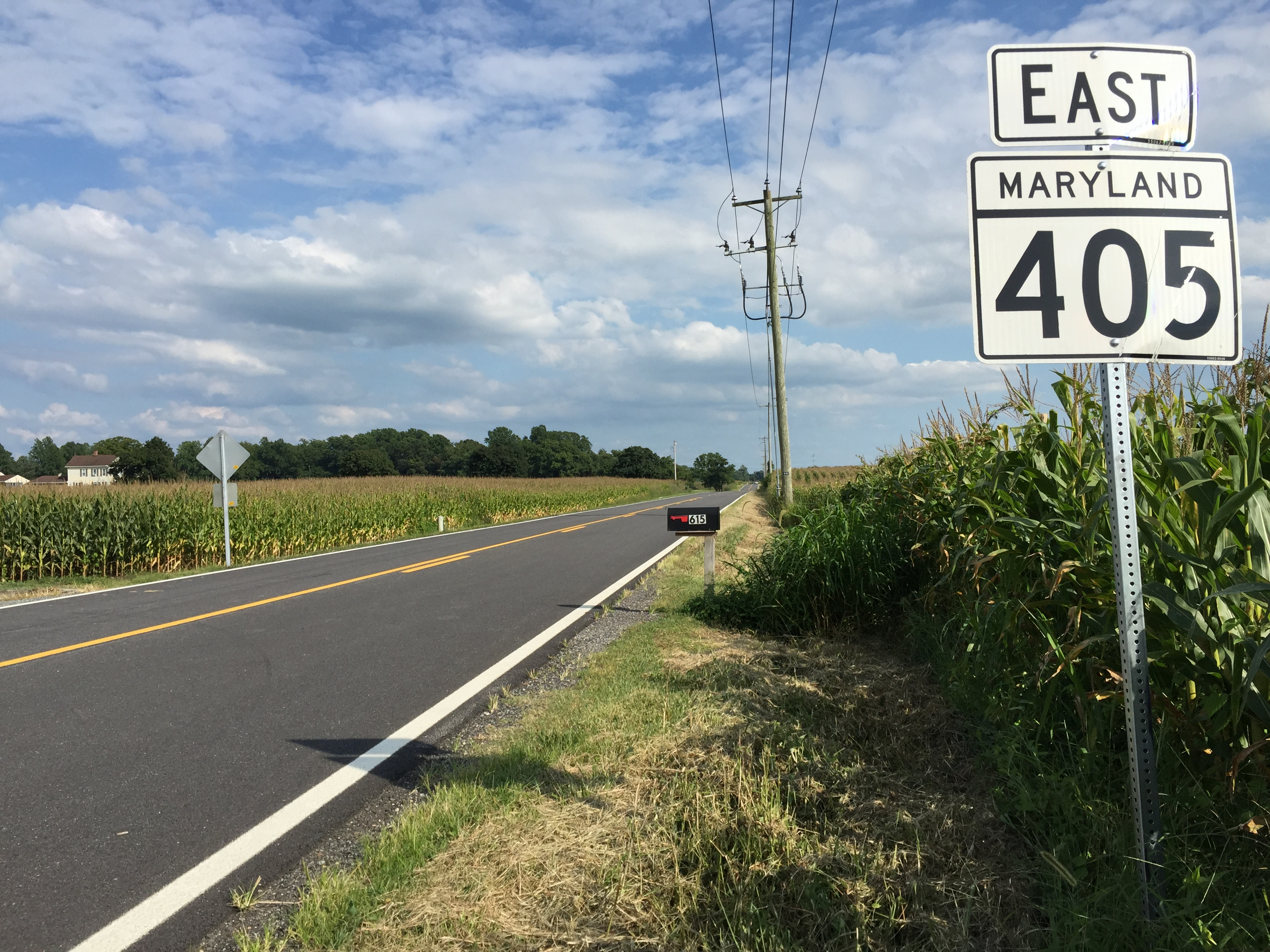 View east along Maryland State Route 405 (Price Station Road) at Flat Iron Square Road and Cedar Lane in Price, Queen Anne's County, Maryland